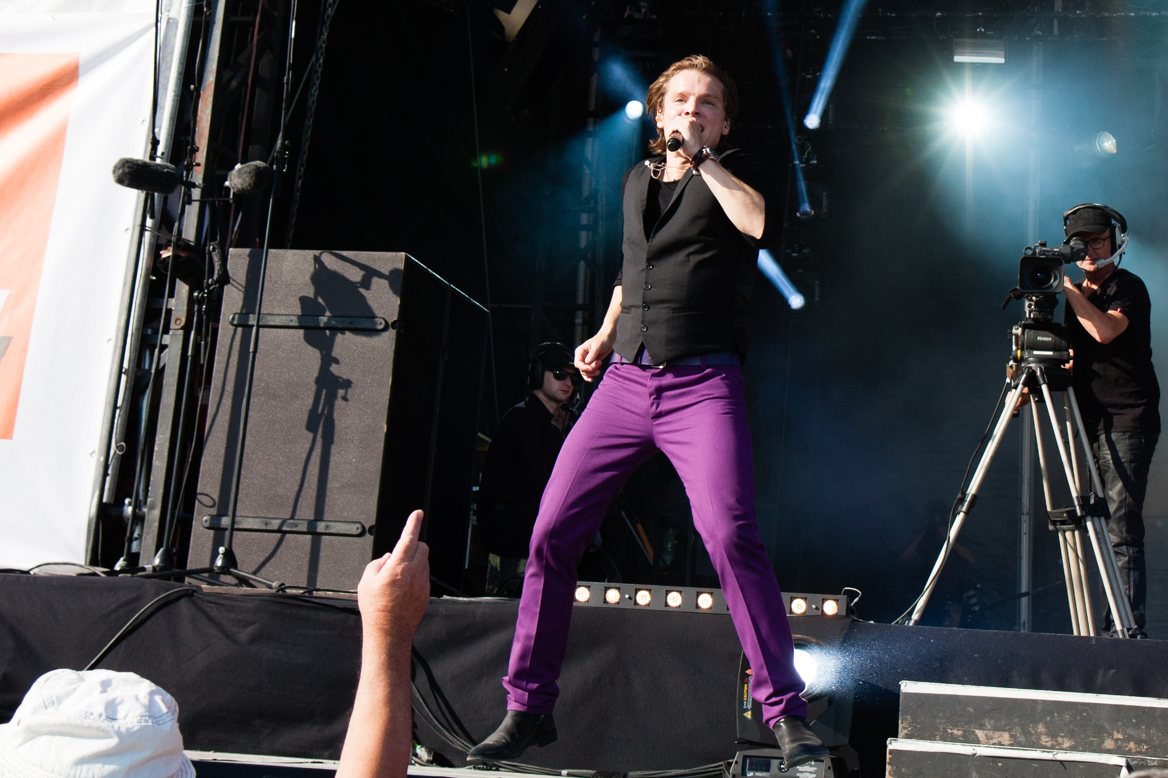 Follow me on facebook Twitter : @didyPhotography All the photographies I've made are now under CC0 (Creative Commons Zero) CC0 - learn more To the extent possible under law, Eddy BERTHIER has waived all copyright and related or neighboring rights to Bénabar @ Brussels Summer Festival 2012. This work is published from: France.